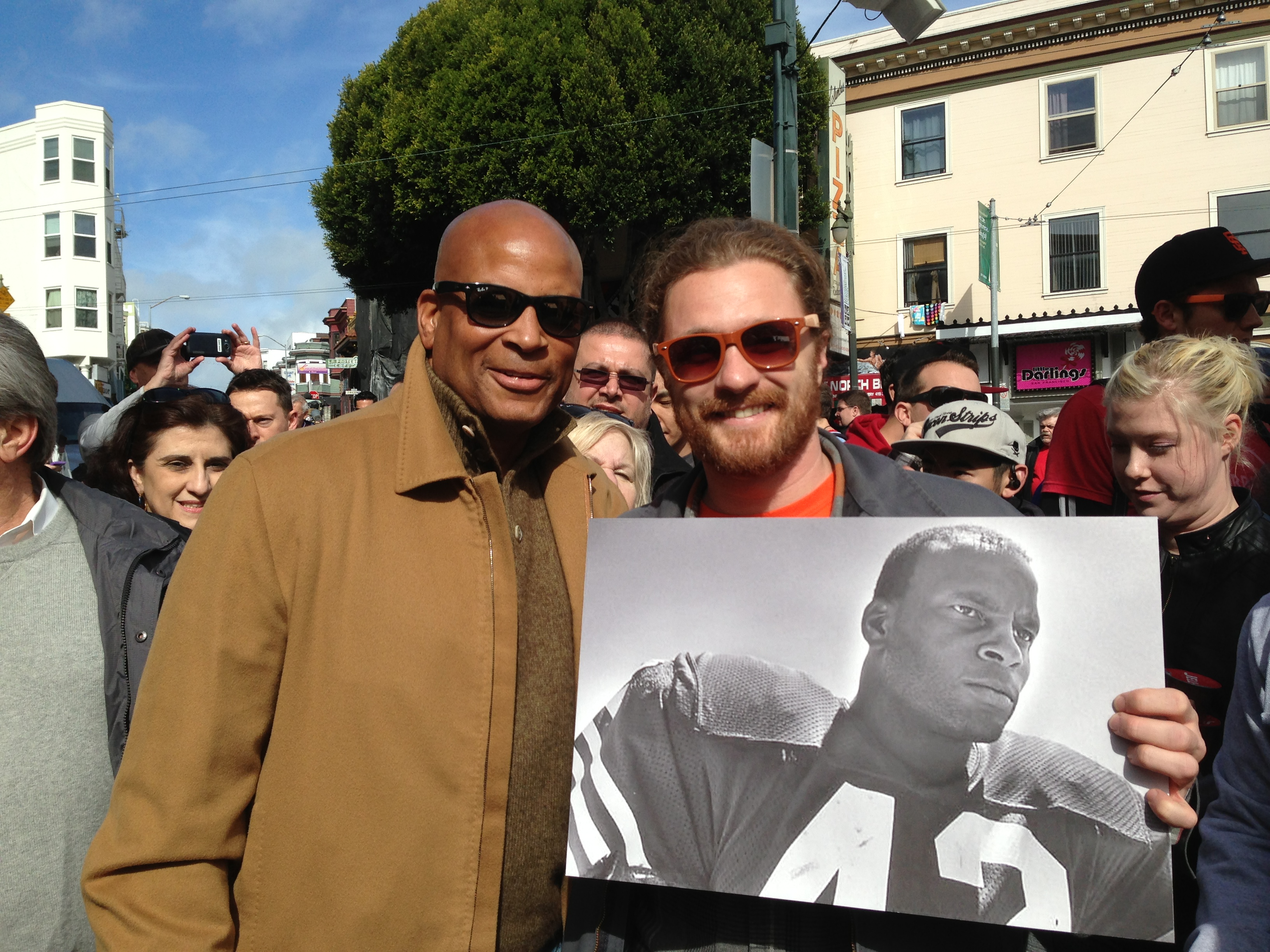 Taken in North Beach San Francisco, California. 1 day after the 49ers Super Bowl loss. What a great sport!